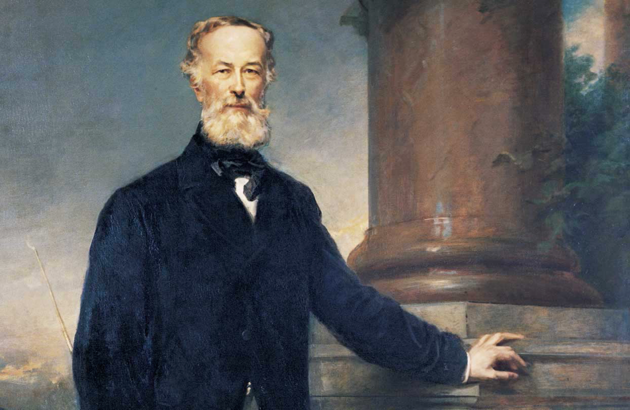 Painting of Alfred Krupp (1812-1887)